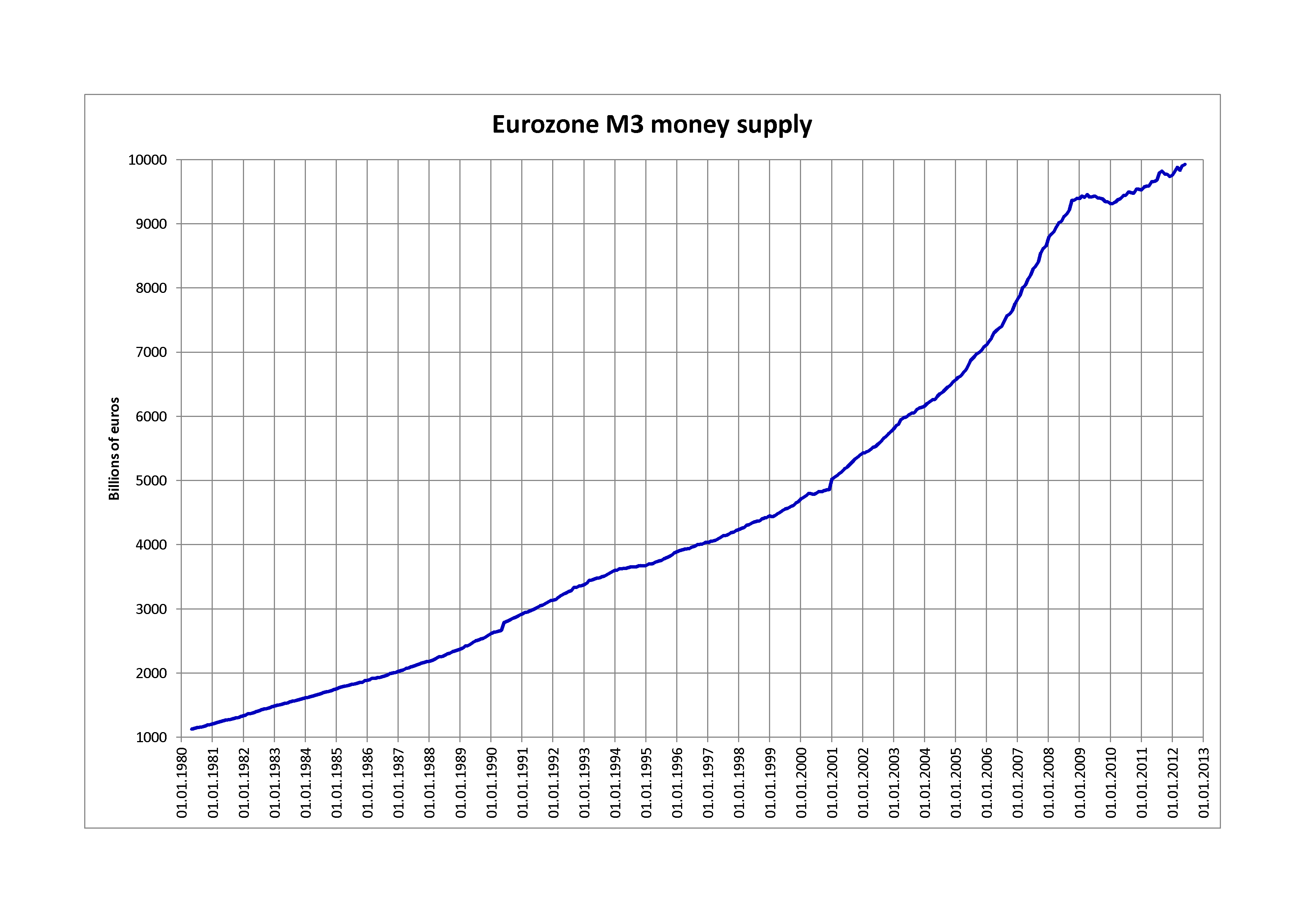 Eurozone M3 money supply from January 1980 to June 2012 (monthly data in billions of euros)